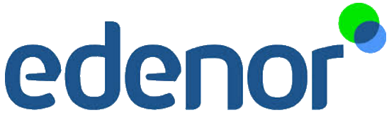 Logo of Argentine company Edenor.